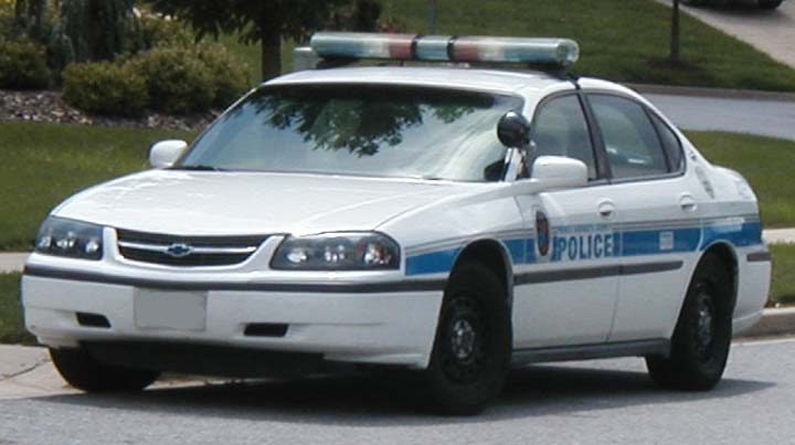 2000-2005 Chevrolet Impala police car of the Prince George's County police; photographed in USA.